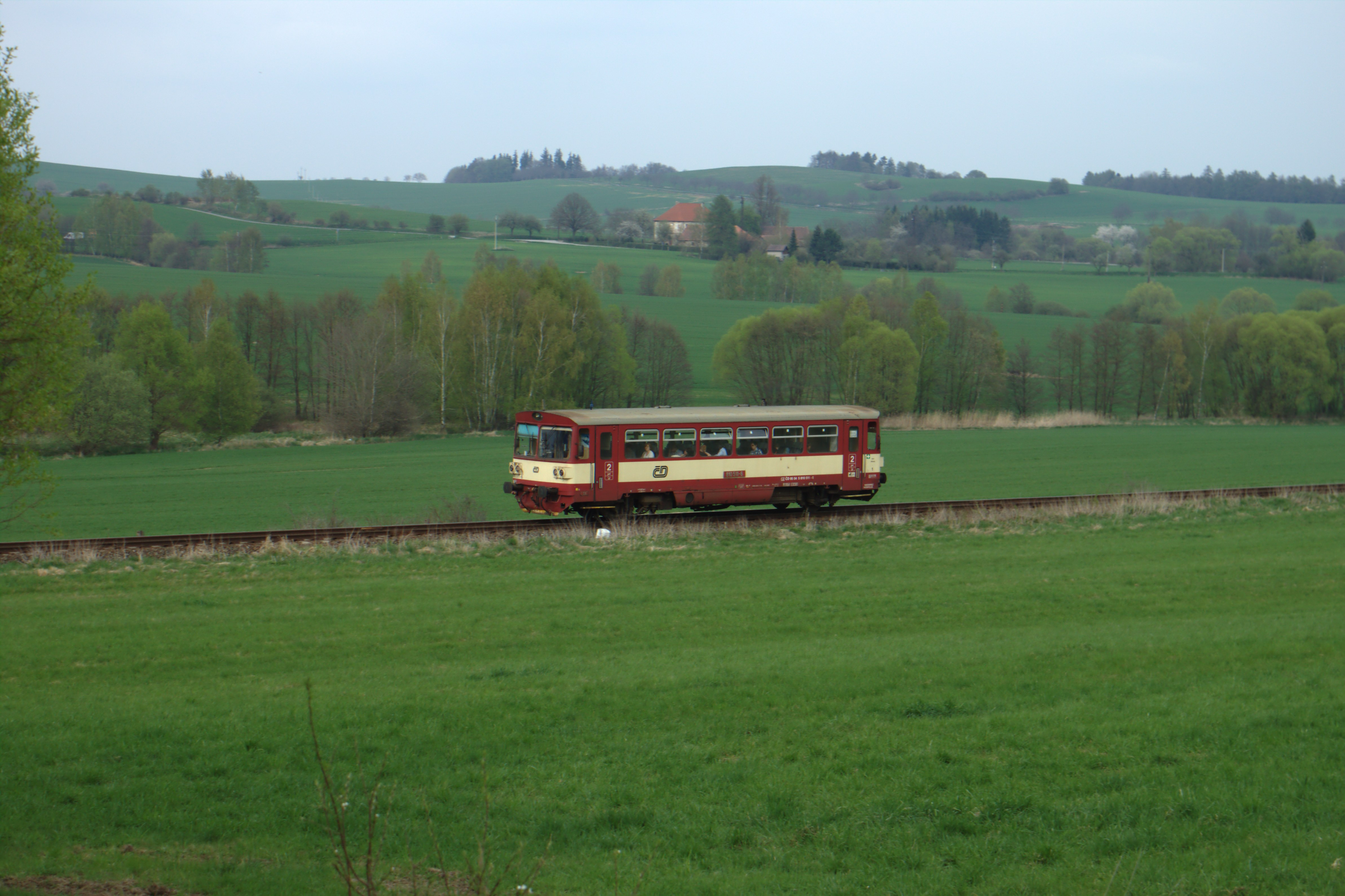 Train track no. 222 from Benešov to Trhový Štěpánov, Central Bohemian Region, CZ